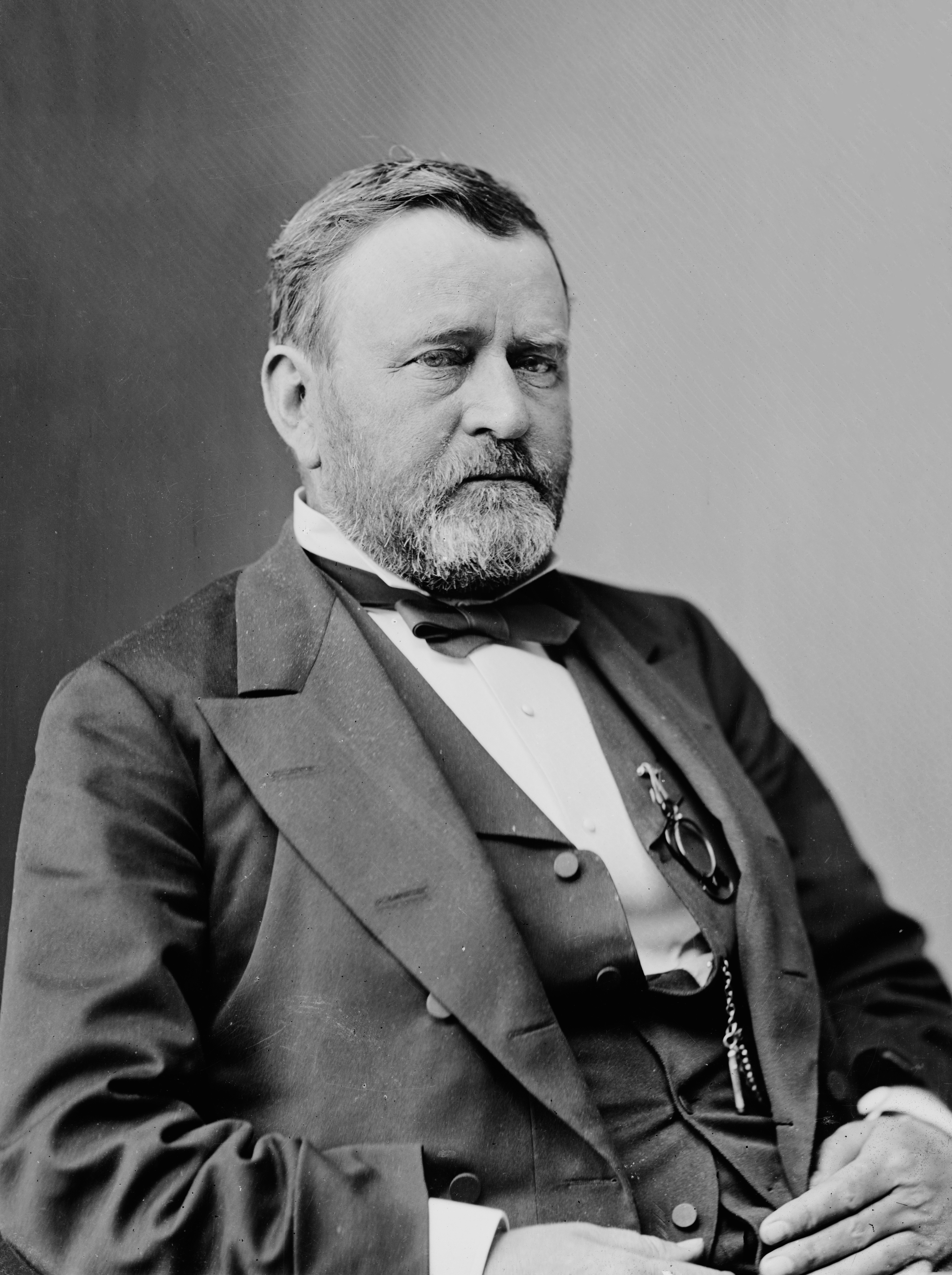 The 18th President of the United States Ulysses S. Grant.